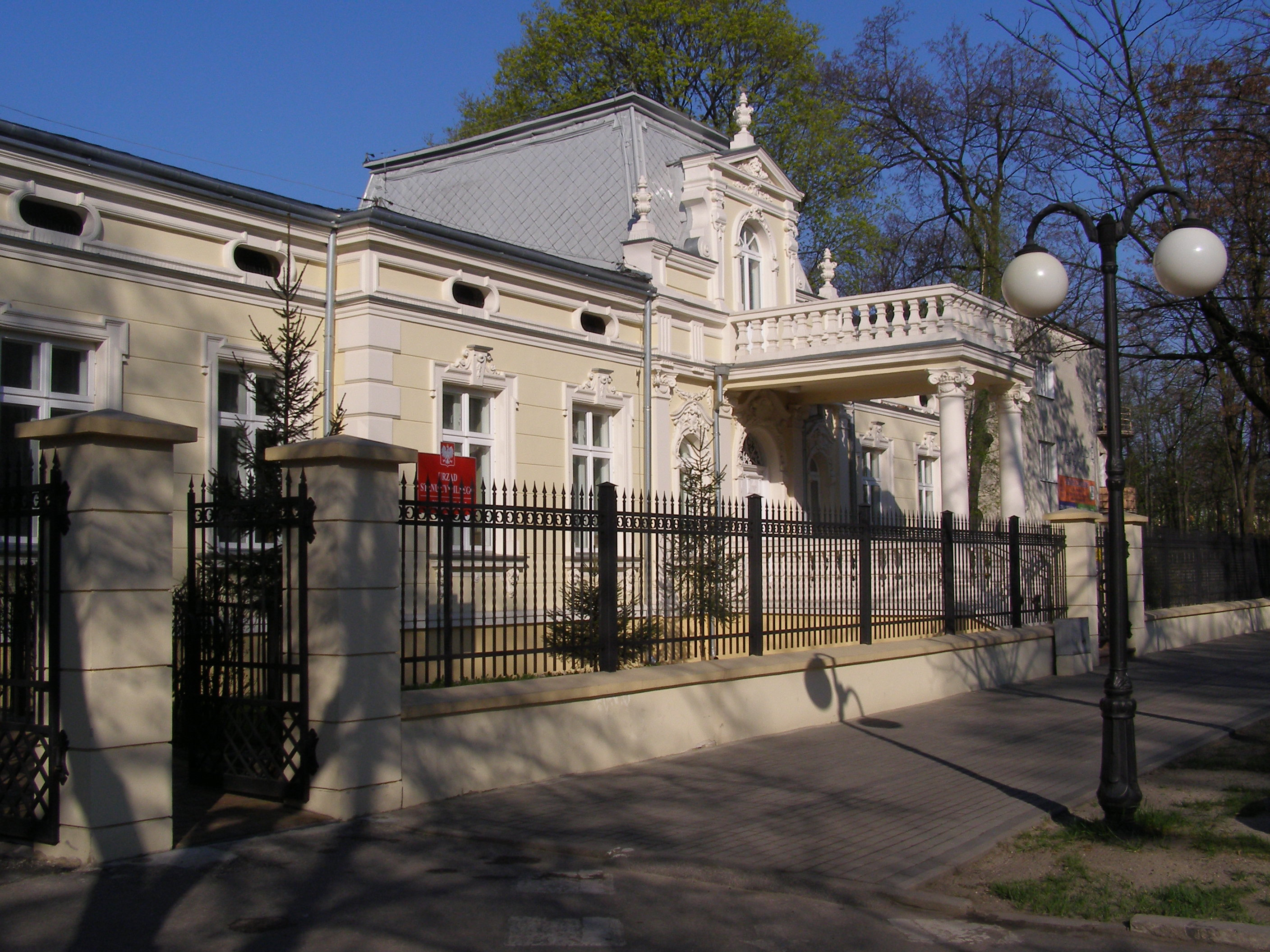 Dr. Rode's Villa in Tomaszów Mazowiecki, now Office of Civil Status, Poland